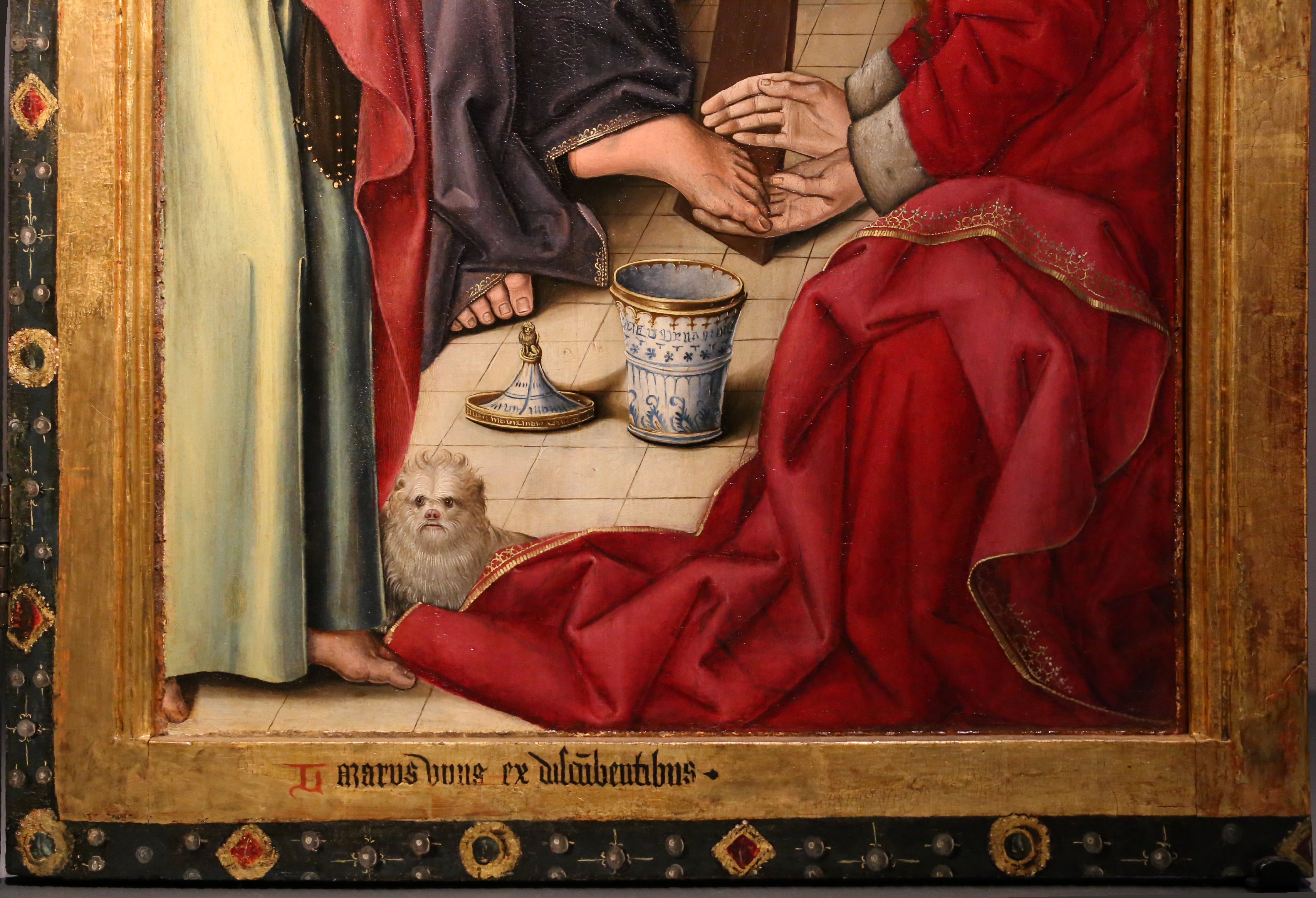 Resurrection of Lazarus Triptych by Nicolas Froment